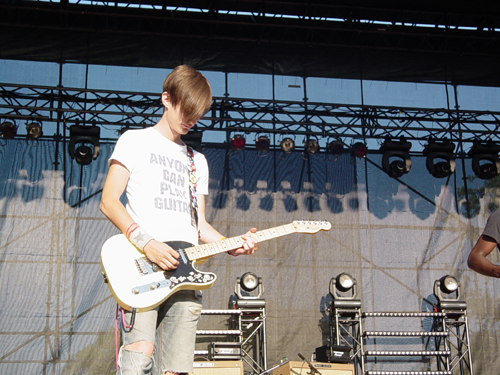 Russell Lissack performing at Olympic Island 2006 (June 24, 2006)